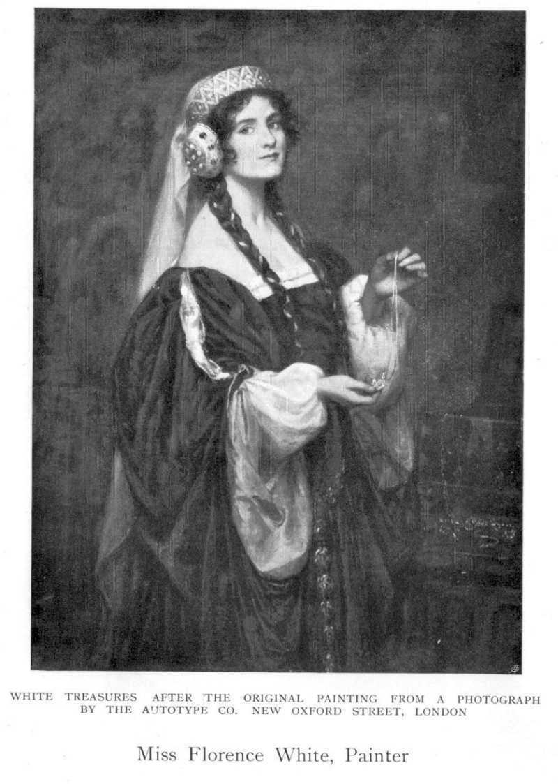 1905 print after page of Women painters of the world, from the time of Caterina Vigri, 1413-1463, to Rosa Bonheur and the present day, by Walter Shaw Sparrow, The Art and Life Library, Hodder & Stoughton, 27 Paternoster Row, London